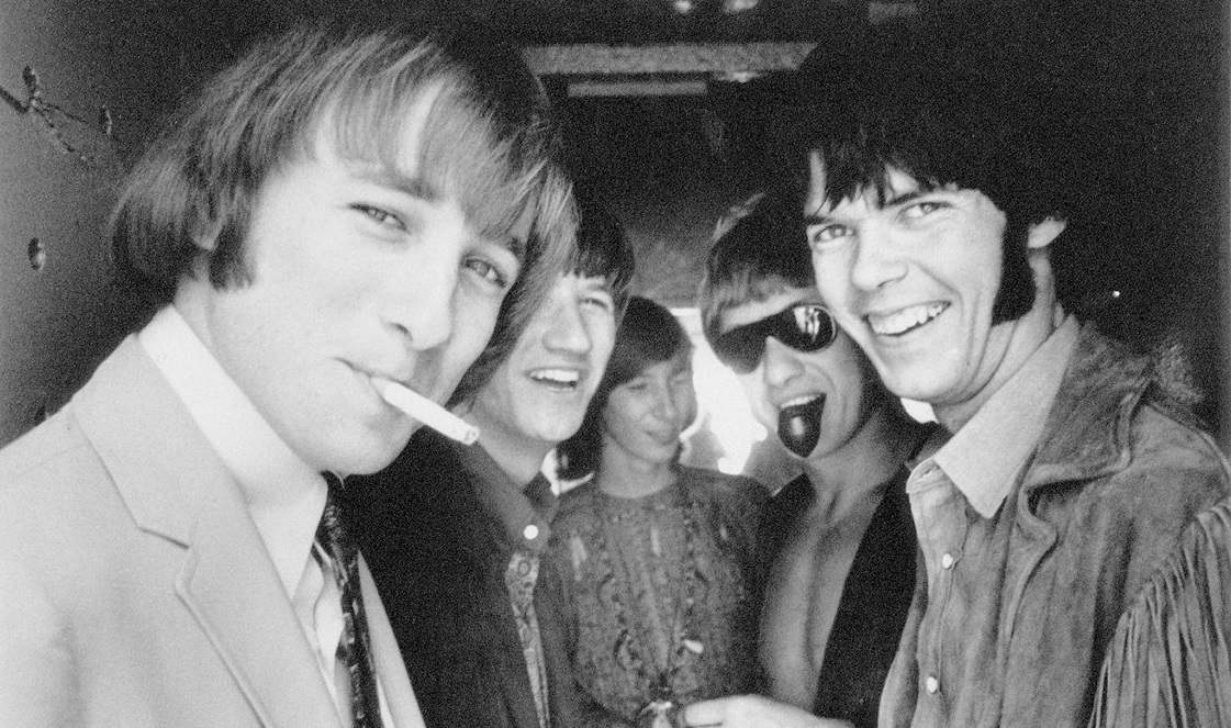 American rock band Buffalo Springfield pictured in 1966. (left to right) Stephen Stills, Richie Furay, Bruce Palmer, Dewey Martin and Neil Young